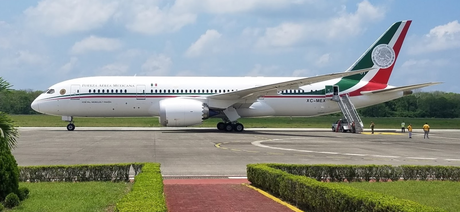 Presidential plane.